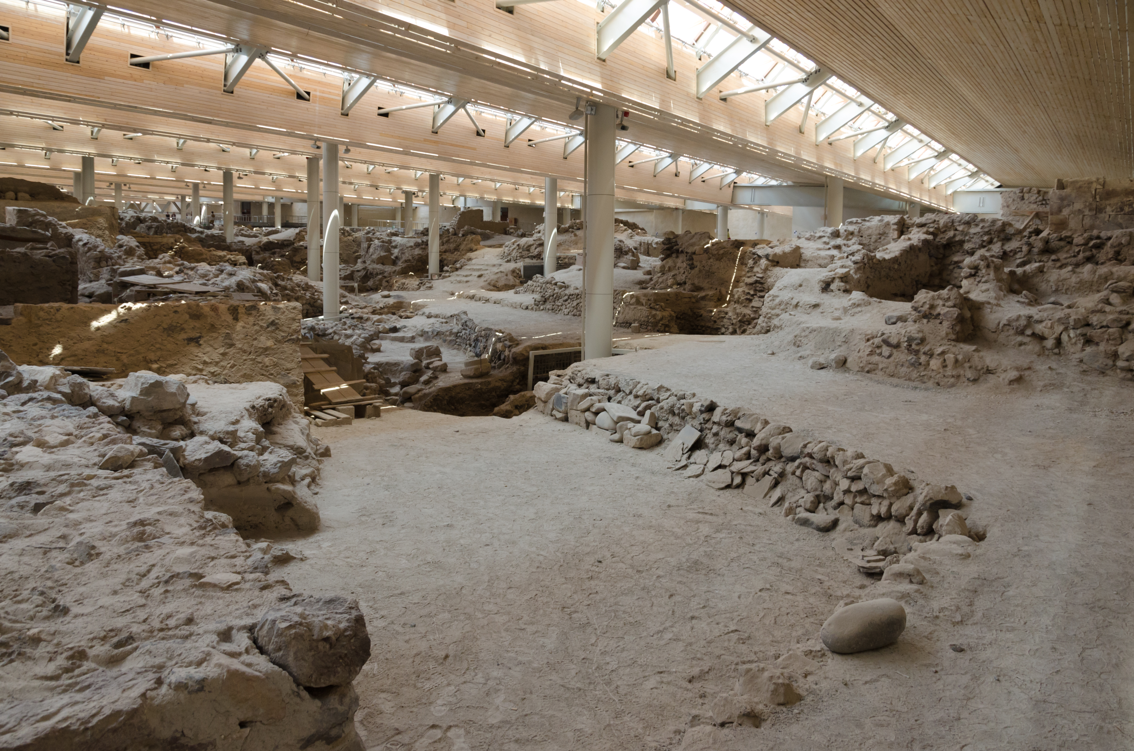 Akrotiri is the name of an excavation site of a Minoan Bronze Age settlement on the Greek island of Santorini, associated with the Minoan civilization due to inscriptions in Linear A, and close similarities in artifact and fresco styles. Akrotiri was buried by the widespread Theran eruption in the middle of the second millennium BC (during the Late Minoan IA period); as a result, like the Roman ruins of Pompeii after it, it is remarkably well-preserved.